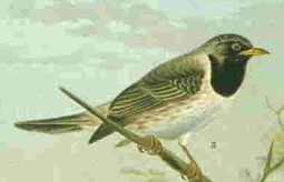 Black-throated Thrush